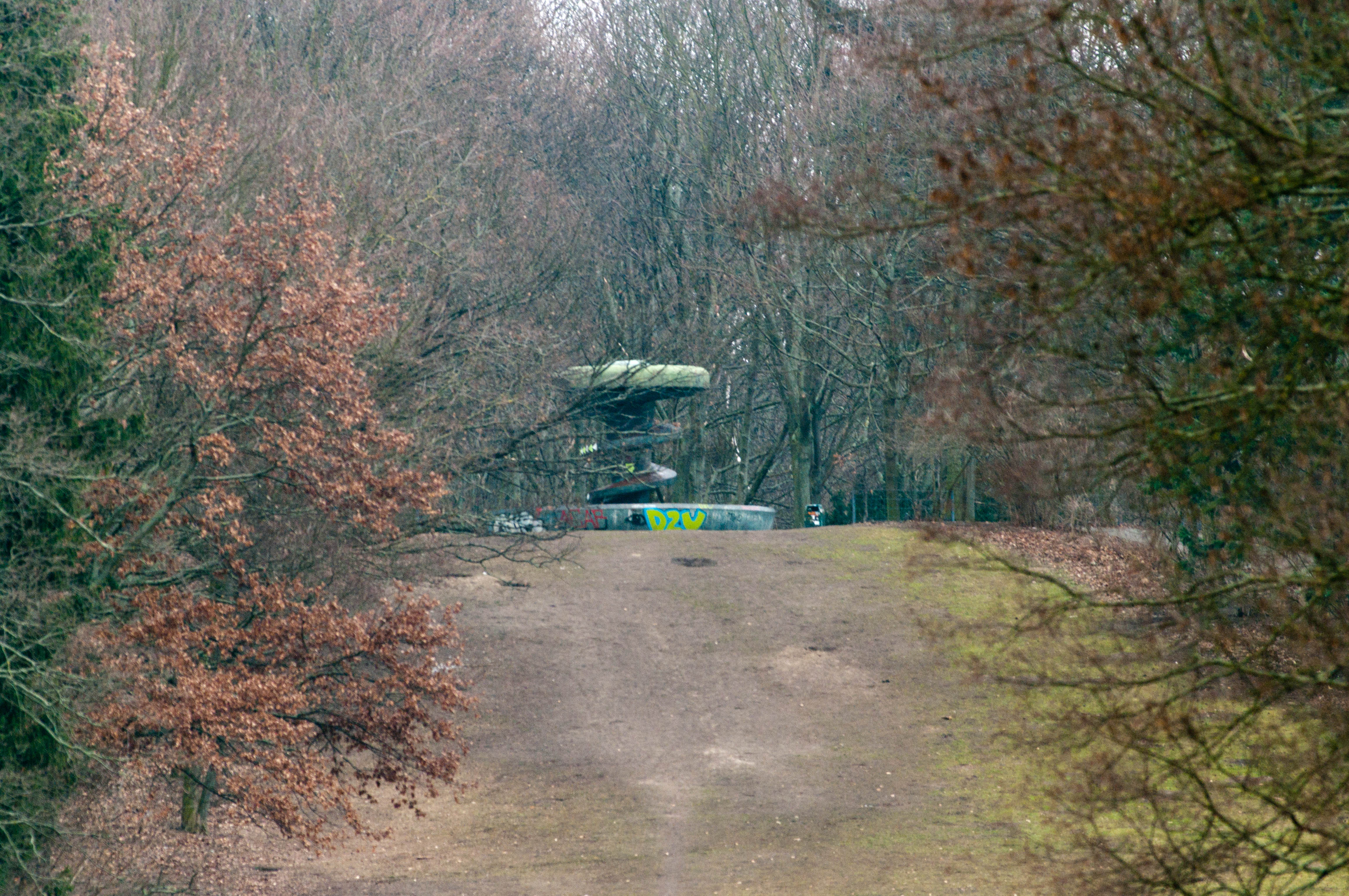 Volkspark Rehberge, Berlin, in march 2016